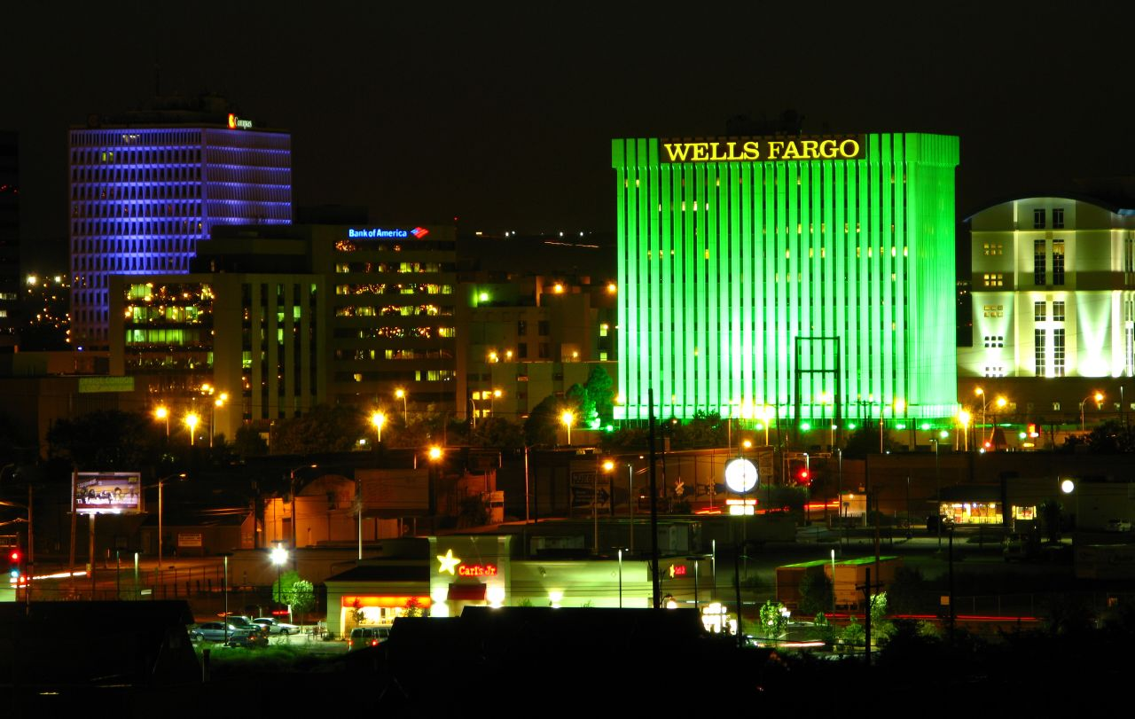 Downtown Albuquerque, NM, just after sunset. Features the Compass Bank building (purple), the Bank of America building, the Wells Fargo building, and the New Courthouse, plus a Carl's Jr. restaurant. Cropped a little black sky off the top in Photoshop, but the colors are as the G9 took them. This is easily my #2 Most Viewed Pic. It reached 300 Views on Dec. 23, 2007. It is also my #3 Most Interesting Pic. Congratulations! On 4 Feb 2008, it reached 500 Views! On March 6, 600!